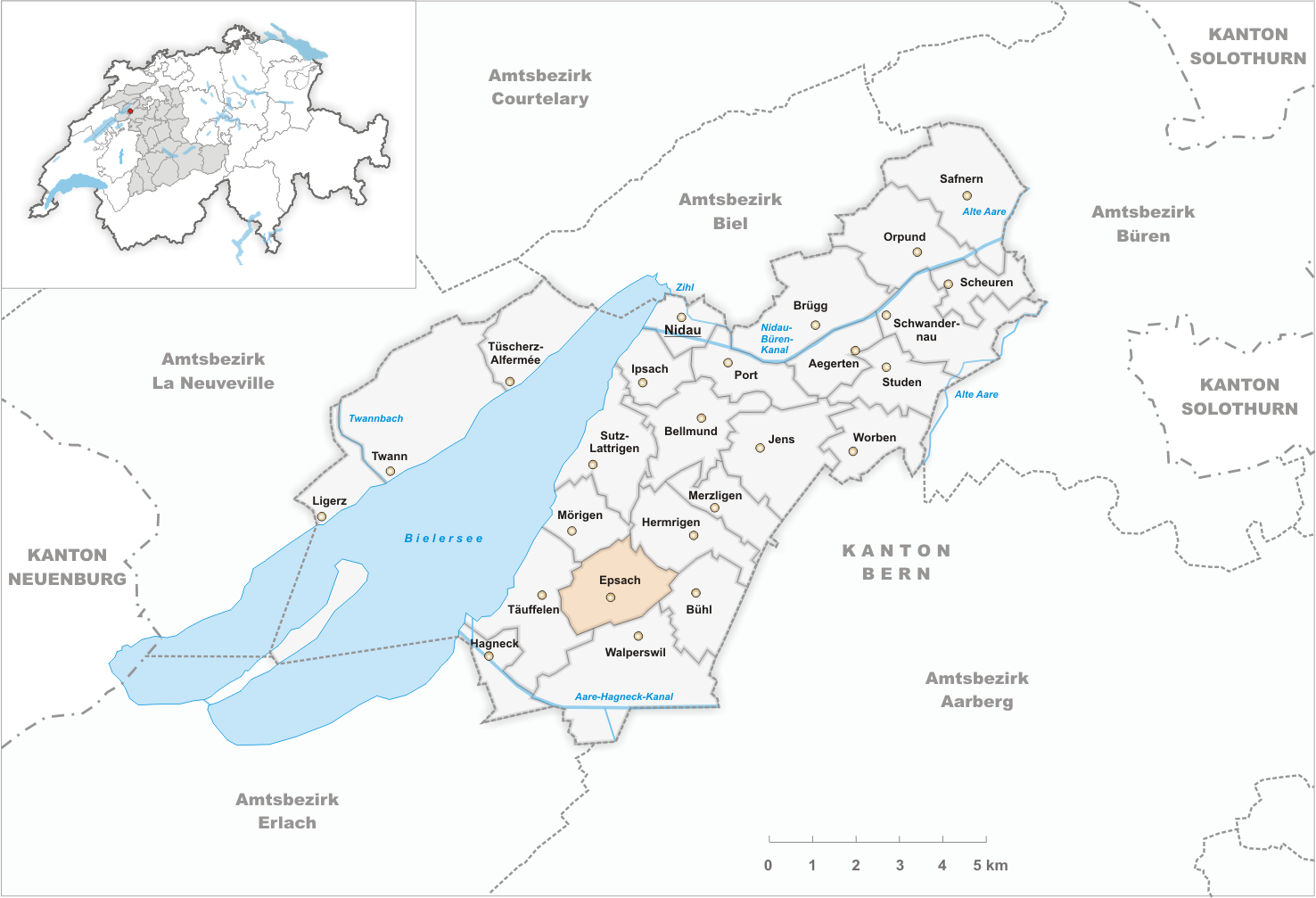 Municipality Epsach